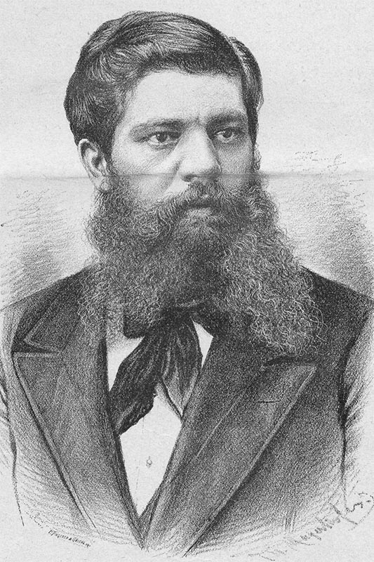 Serbian poet